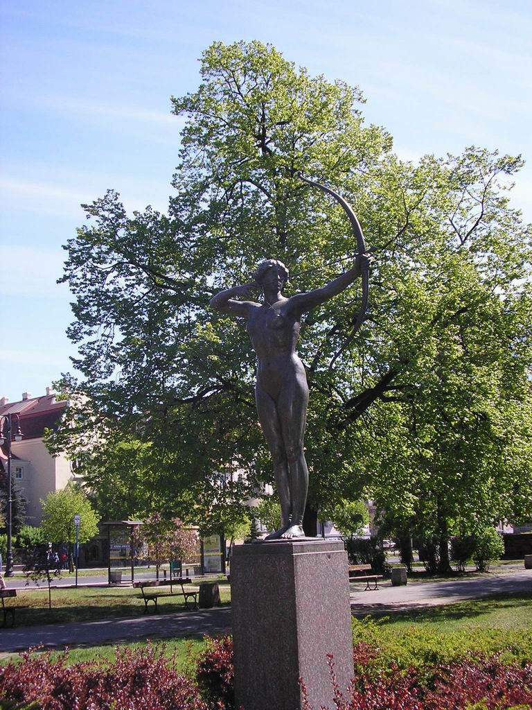 Bydgostia archer monument